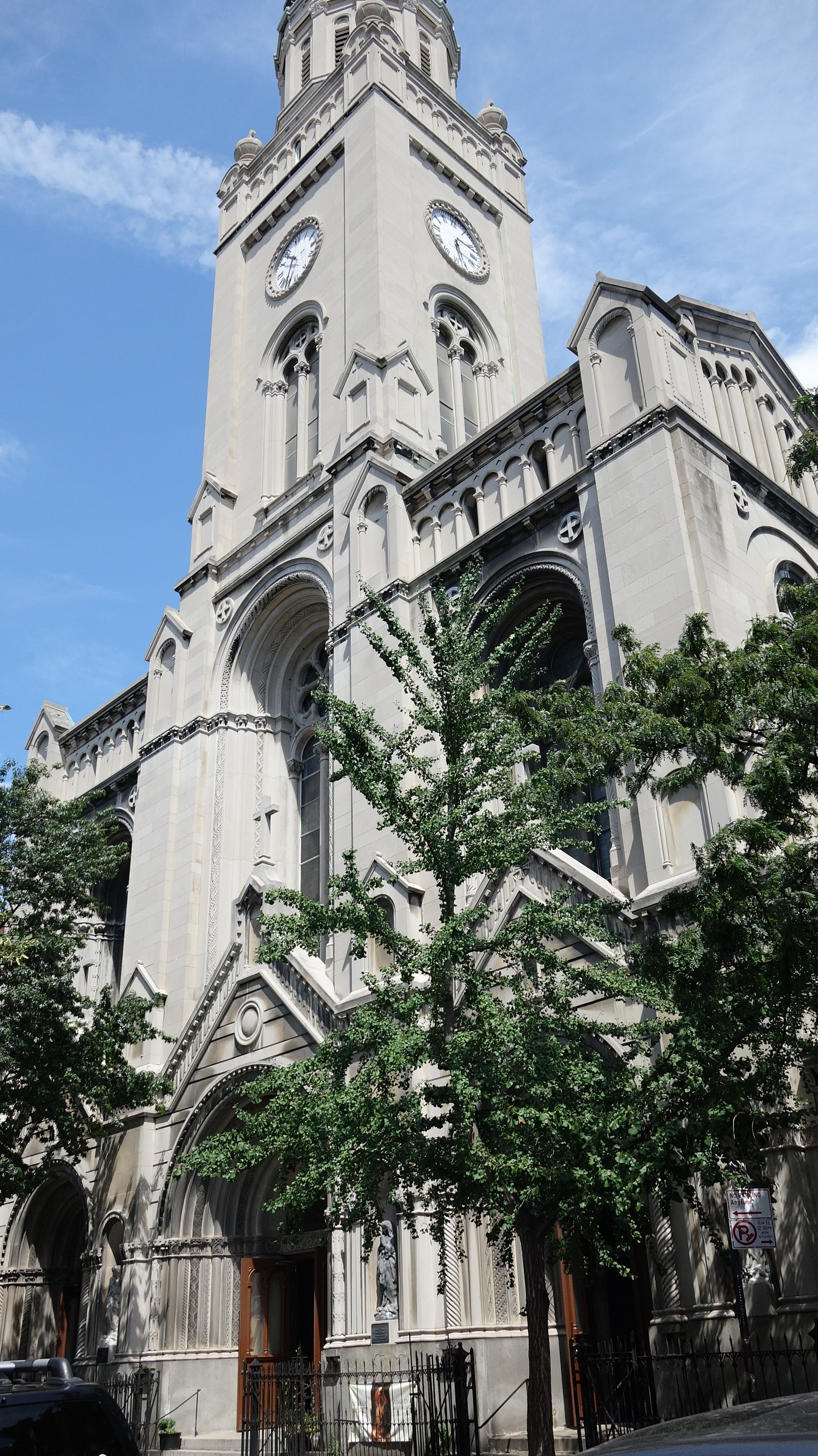 Church of the Most Holy Redeemerin New York City